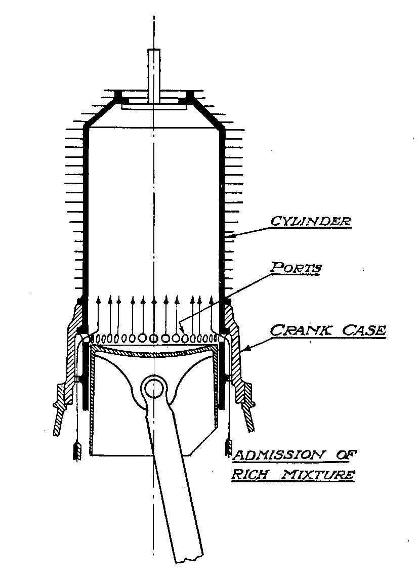 Fig. 1 Cylinder cross-section Gnome Le Rhone "Monosoupape" (single valve) B2 9 cylinder rotary engine of WW1. See other images from this source in Gnome Monosoupape aircraft engine manual